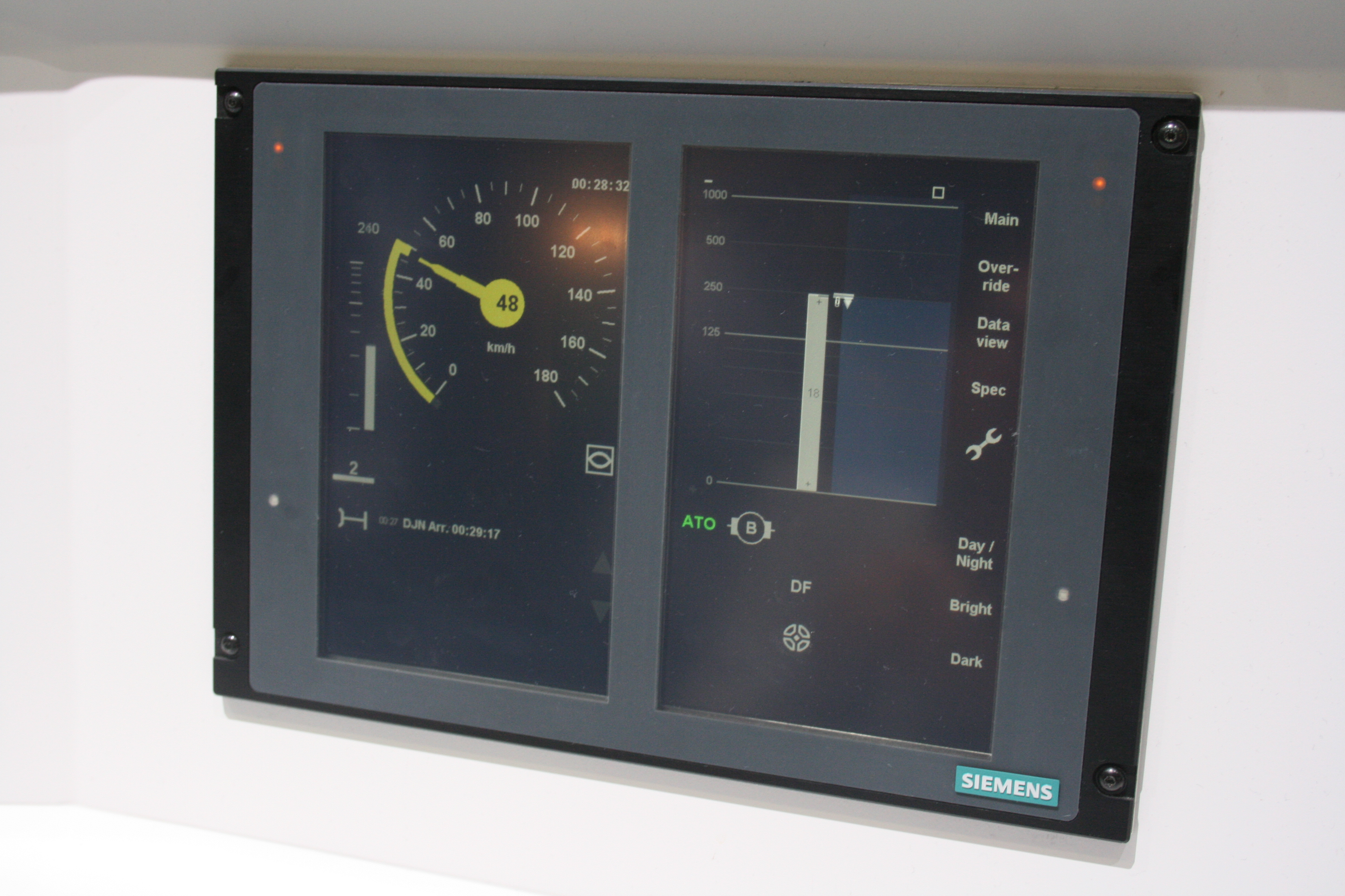 ETCS Driver Machine Interface (DMI) in Automatic Train Operation (ATO) as it will be used on Thameslink trains: 35 seconds before the designated arrival time, the system has commenced target braking. The system was shown in a simulator in Innotrans 2016.